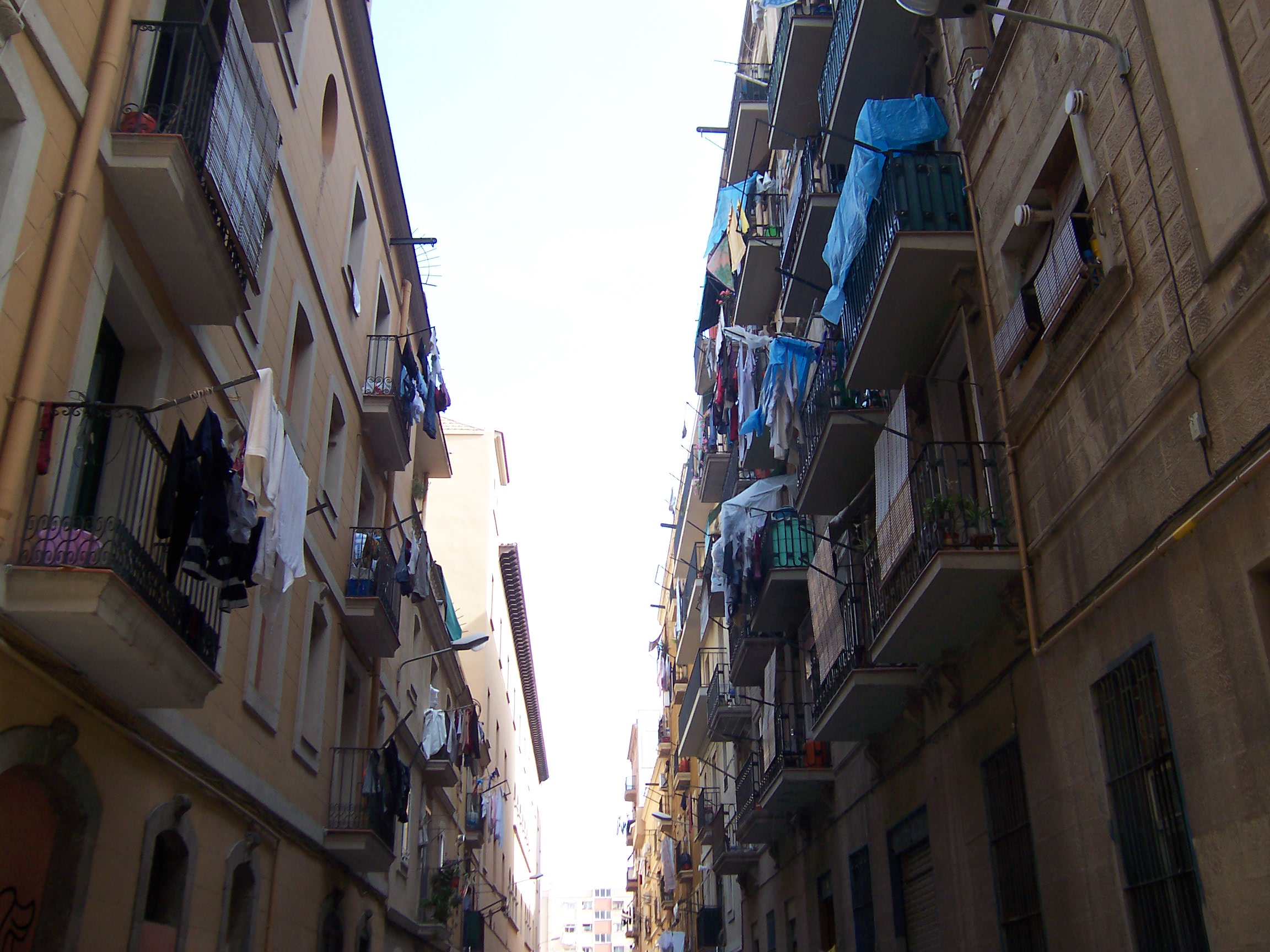 Street in the Barceloneta neighborhood, in Barcelona.